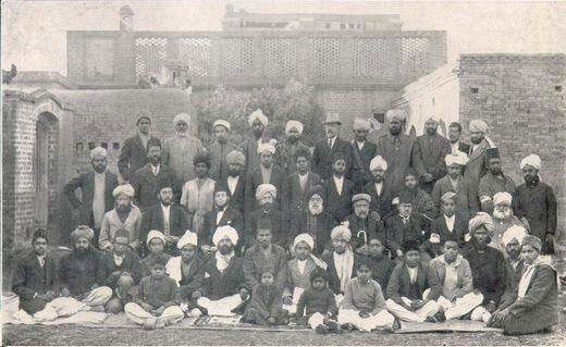 Members of the Ahmadiyya Movement who spoke in 47 different languages at Qadian